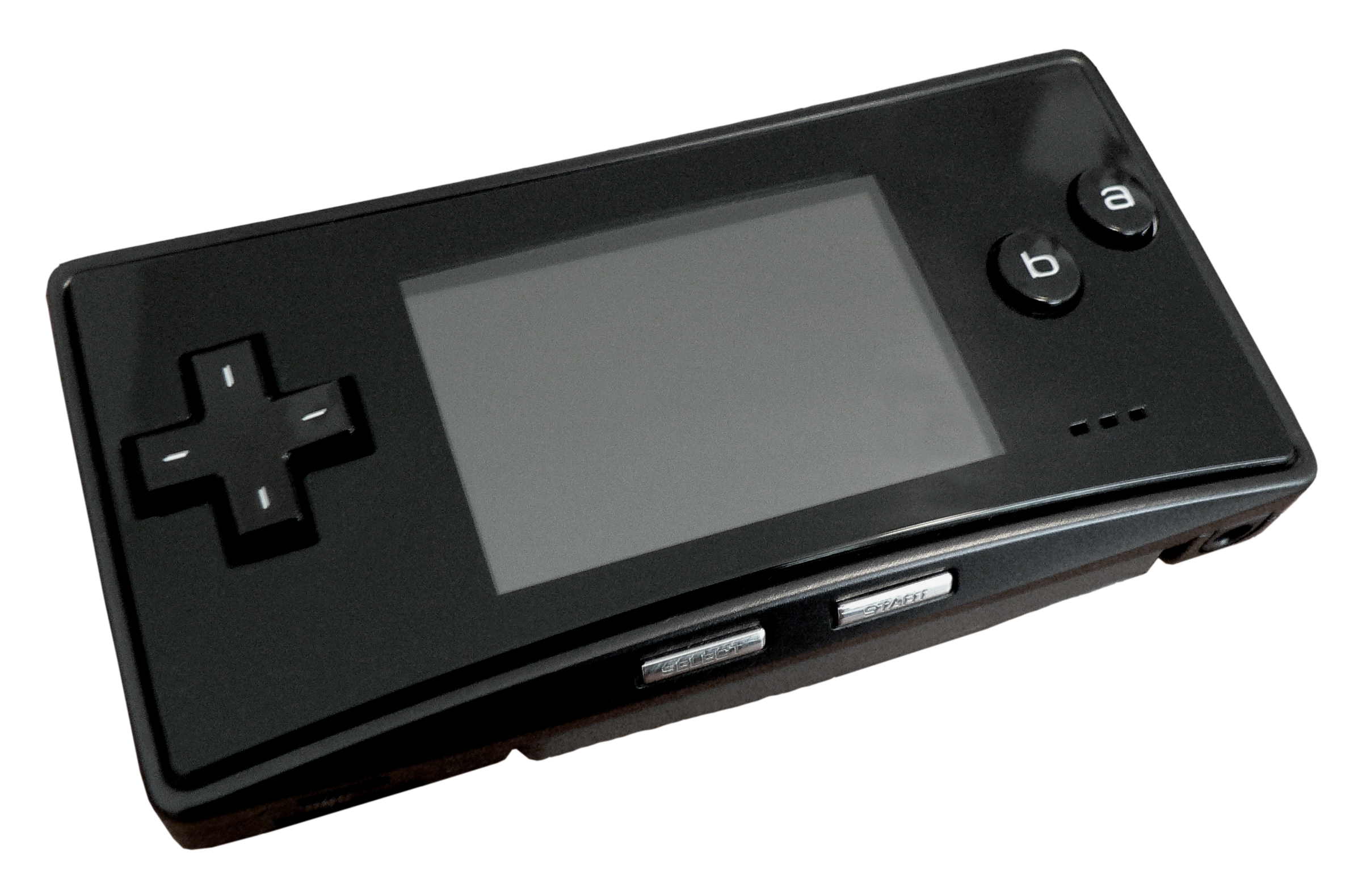 A photograph of an all-black Nintendo Game Boy Micro, purchased from Japan.